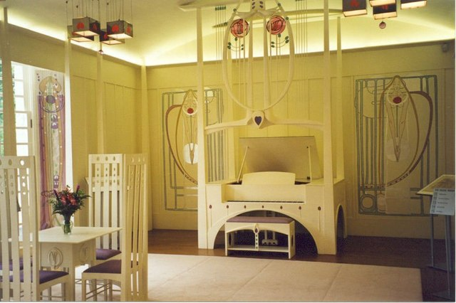 Music Room of the House for an Art Lover